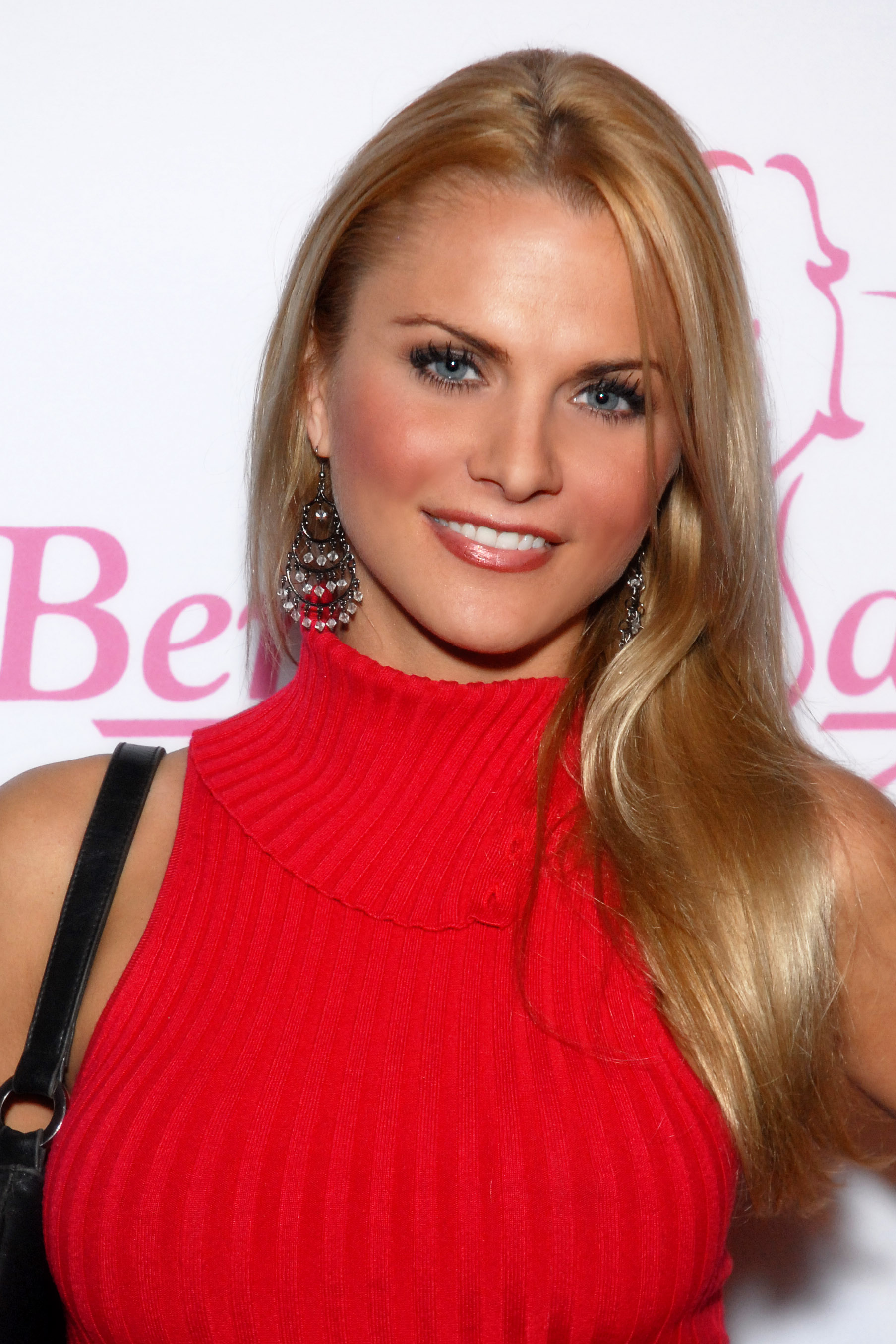 Paige Peterson attending the Benchwarmer Valentines Party at Area, Hollywood, CA on 02/12/2008 - Photo by Glenn Francis of